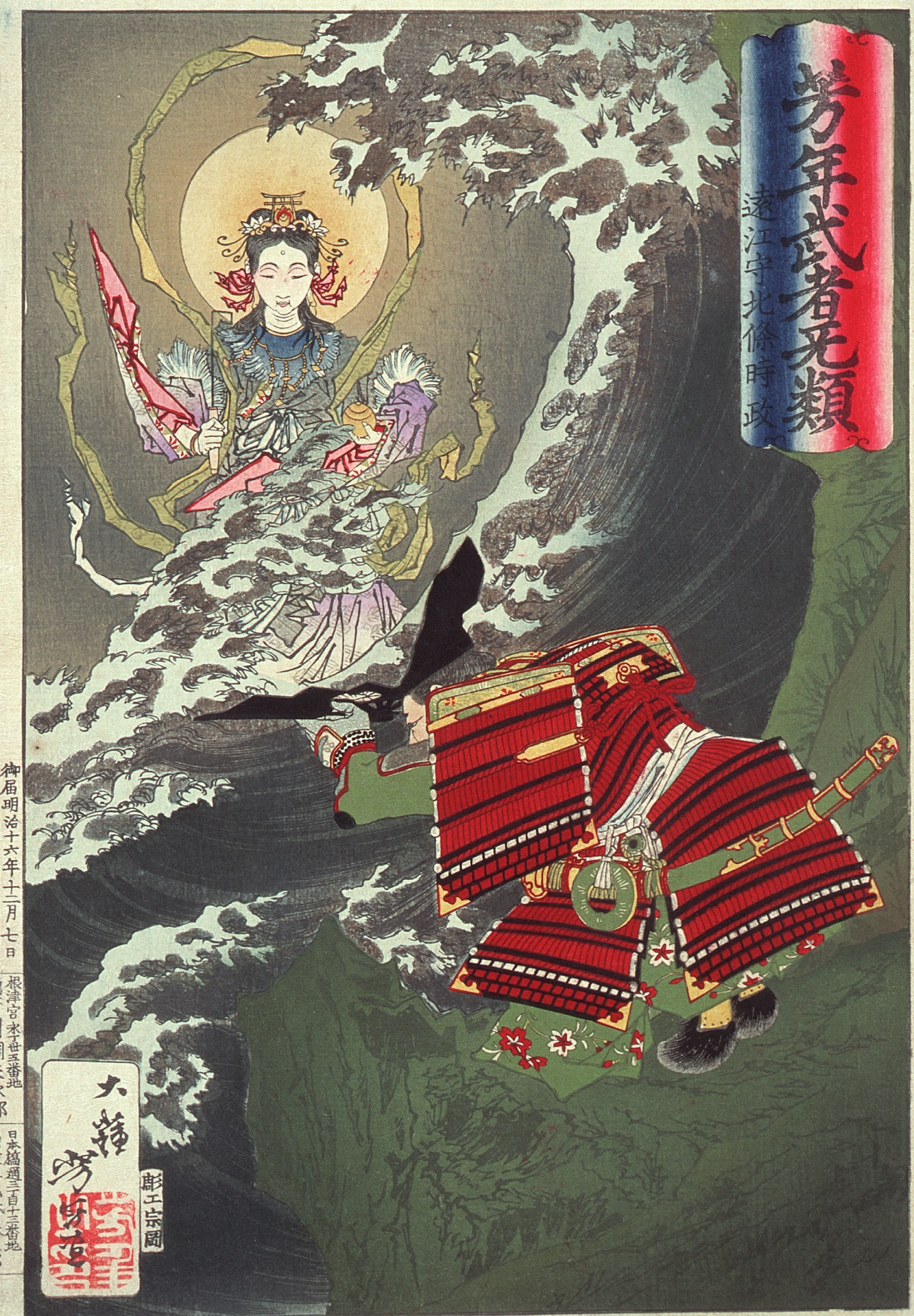 Japan, December 1883 Series: Yoshitoshi's Warriors Trembling with Courage Prints; woodcuts Color woodblock print Herbert R. Cole Collection (M.84.31.455) Japanese Art 北条時政が江の島に参籠したところ21日目に弁財天が現れ、非道をすれば家が滅びると告げたあと蛇の姿になって海に消えた。そのとき蛇が残した3枚の鱗を扇子の上に載せて頭を垂れる時政を描いたもの。こののち北条家は3つ鱗を家紋とした。 Hojo Tokimasa